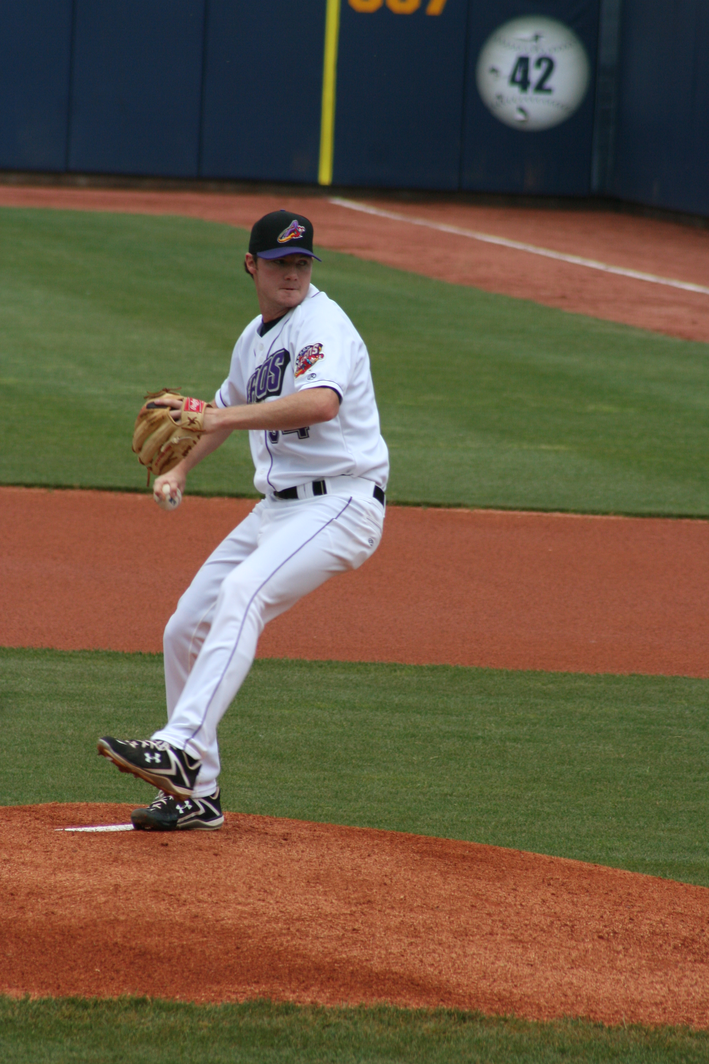 Alex White pitches for the Akron Aeros in his Eastern League debut.